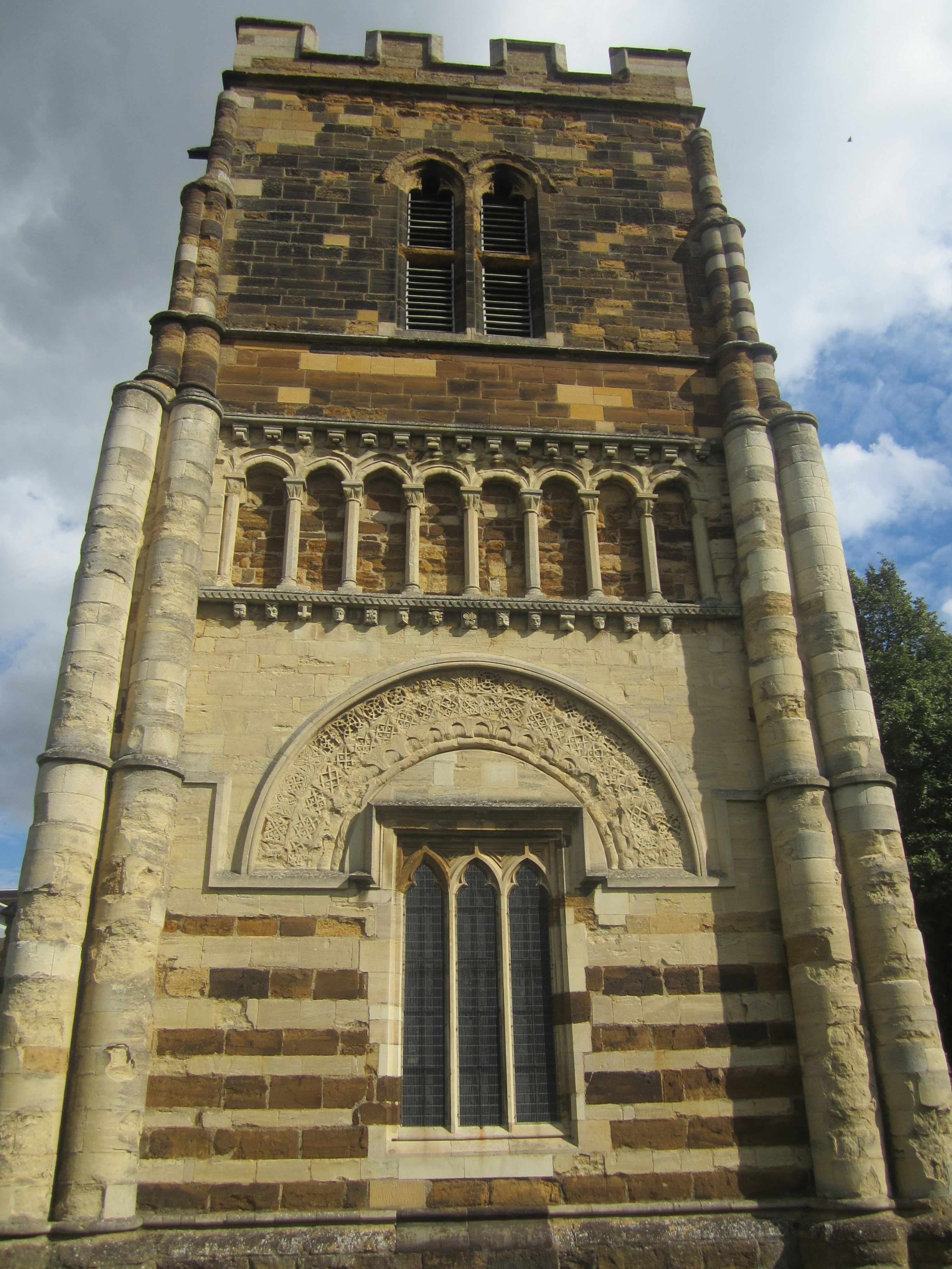 West tower of St Peter's parish church, Mare Fair, Northampton Wikidata has entry Q7595268 with data related to this item.